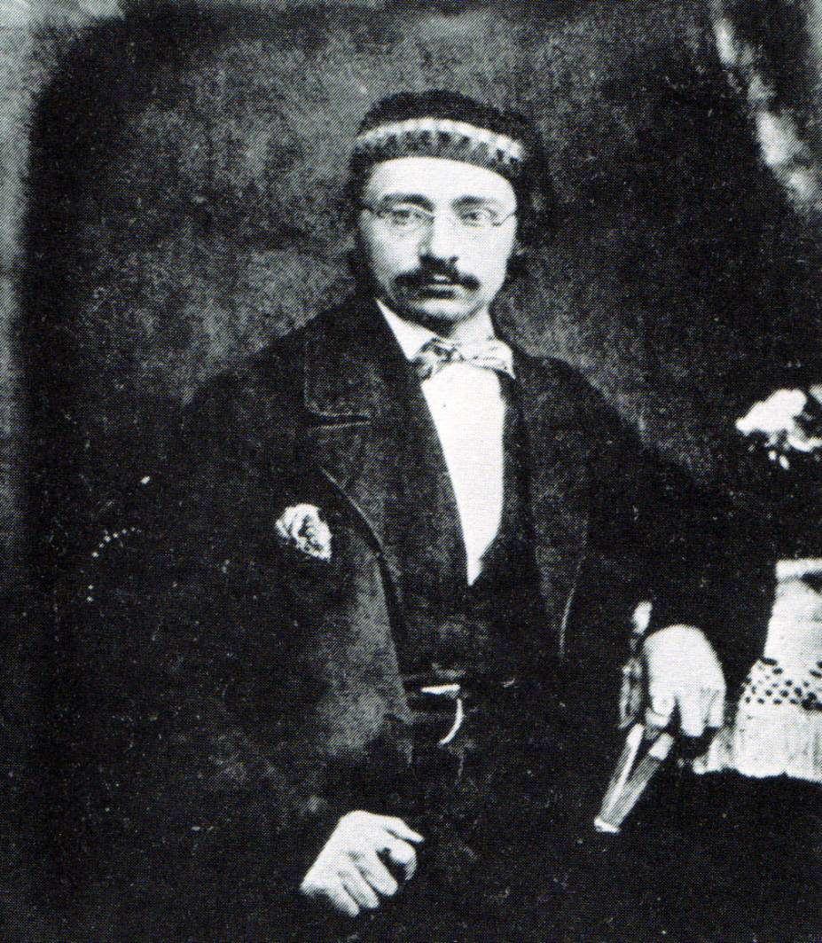 Hermann Krone (1827-1916), German scientist, photographer and publisher. Self-portrait.